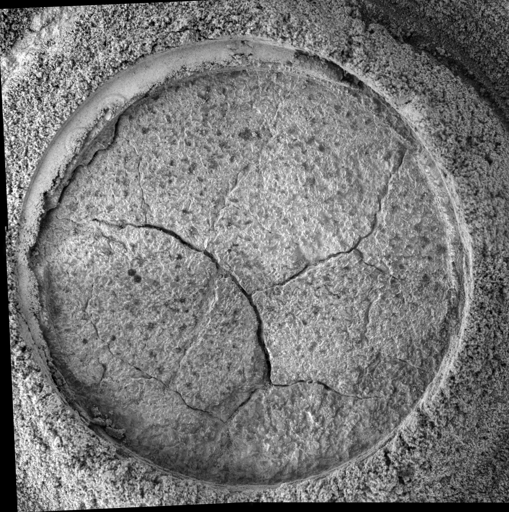 NASA's Mars Exploration Rover Opportunity recently stopped to analyze an exposure of rock near "Beagle Crater," on a target nicknamed "Baltra." Nearly 100 sols, or Martian days, had passed since Opportunity had last analyzed one of the now-familiar rock exposures seen on the Plains of Meridiani. The rover ground a 3-millimeter-deep (0.12-inch-deep) hole in the rock using the rock abrasion tool on sol 893 (July 29, 2006) while stationed about 25 meters (82 feet) from the southwest rim of Beagle Crater. Scientists wanted to analyze the outcrop one more time before driving the rover onto the ring of smooth material surrounding "Victoria Crater." Opportunity's analysis showed the rock to be very similar in its elemental composition to other exposures encountered during the rover's southward trek across Meridiani Planum. Opportunity's microscopic imager acquired this view on sol 894 (July 30, 2006) while the target was fully shadowed. The view shows an area about 6 centimeters (2.4 inches) across, just spanning the diameter of the hole ground into Baltra. The image resolution of 30 microns per pixel makes it possible to see features as small as 0.1 millimeter (0.004 inch). Image Credit: NASA/JPL-Caltech/Cornell/USGS